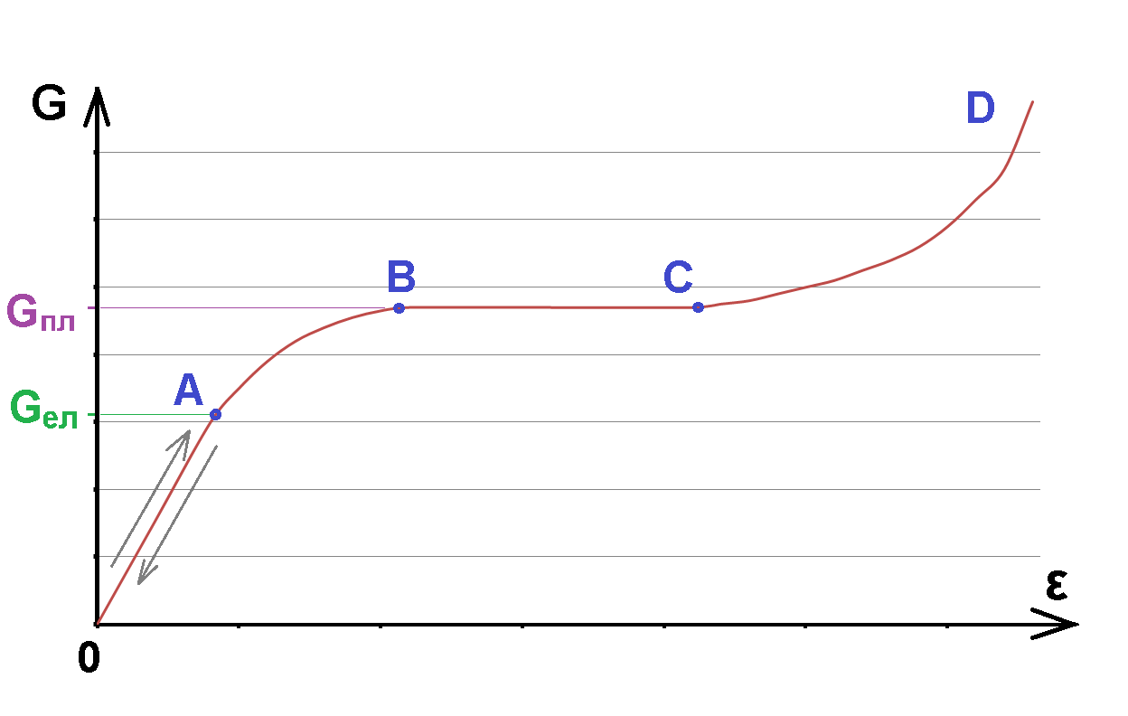 A typical strain diagram for metals